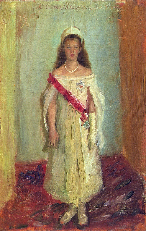 Portrait of Grand Duchess Olga Alexandrovna of Russia